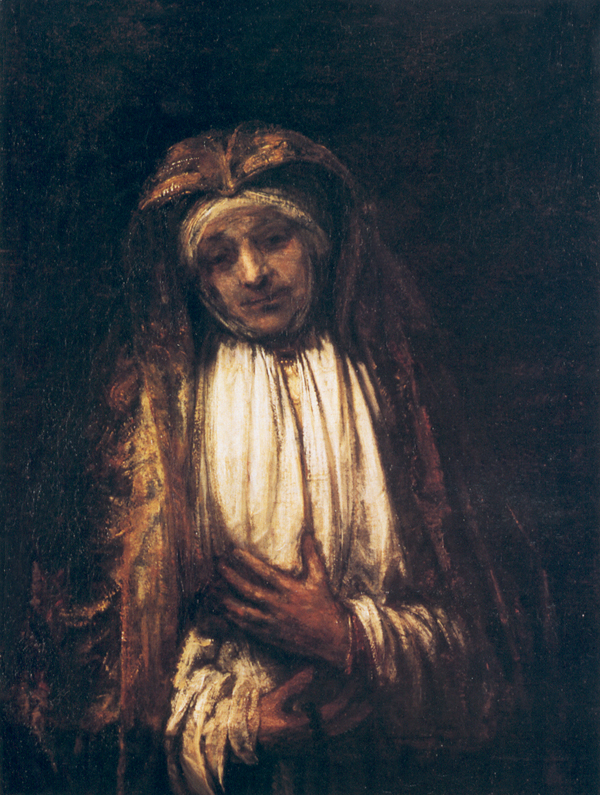 The Virgin of Sorrow, oil on canvas, 107 x 81 cm.